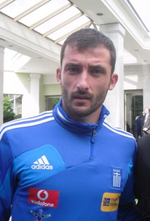 In Jachranka during EURO 2012.